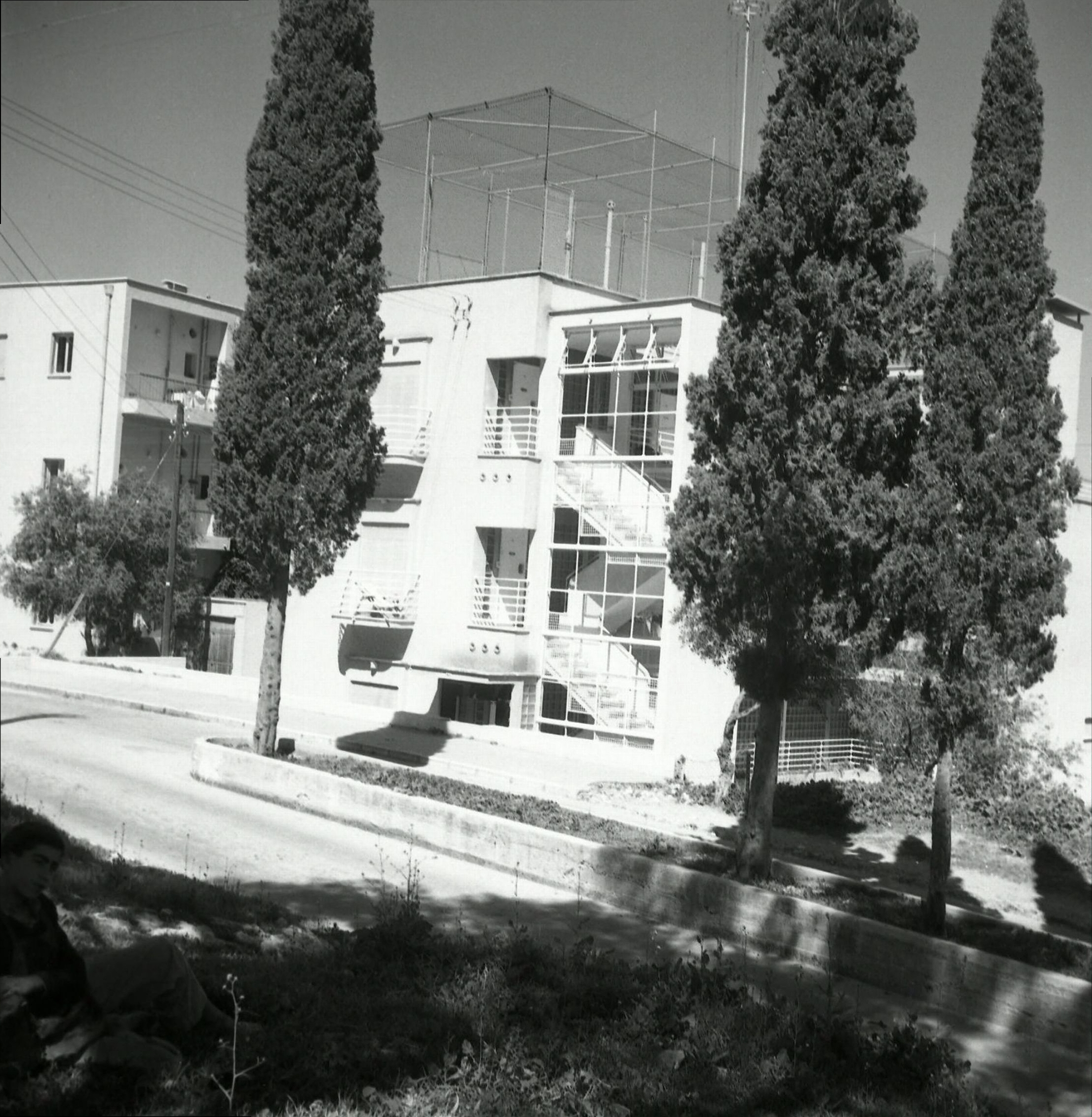 Menkes' glass house 23 Bar-Giora Haifa Israel